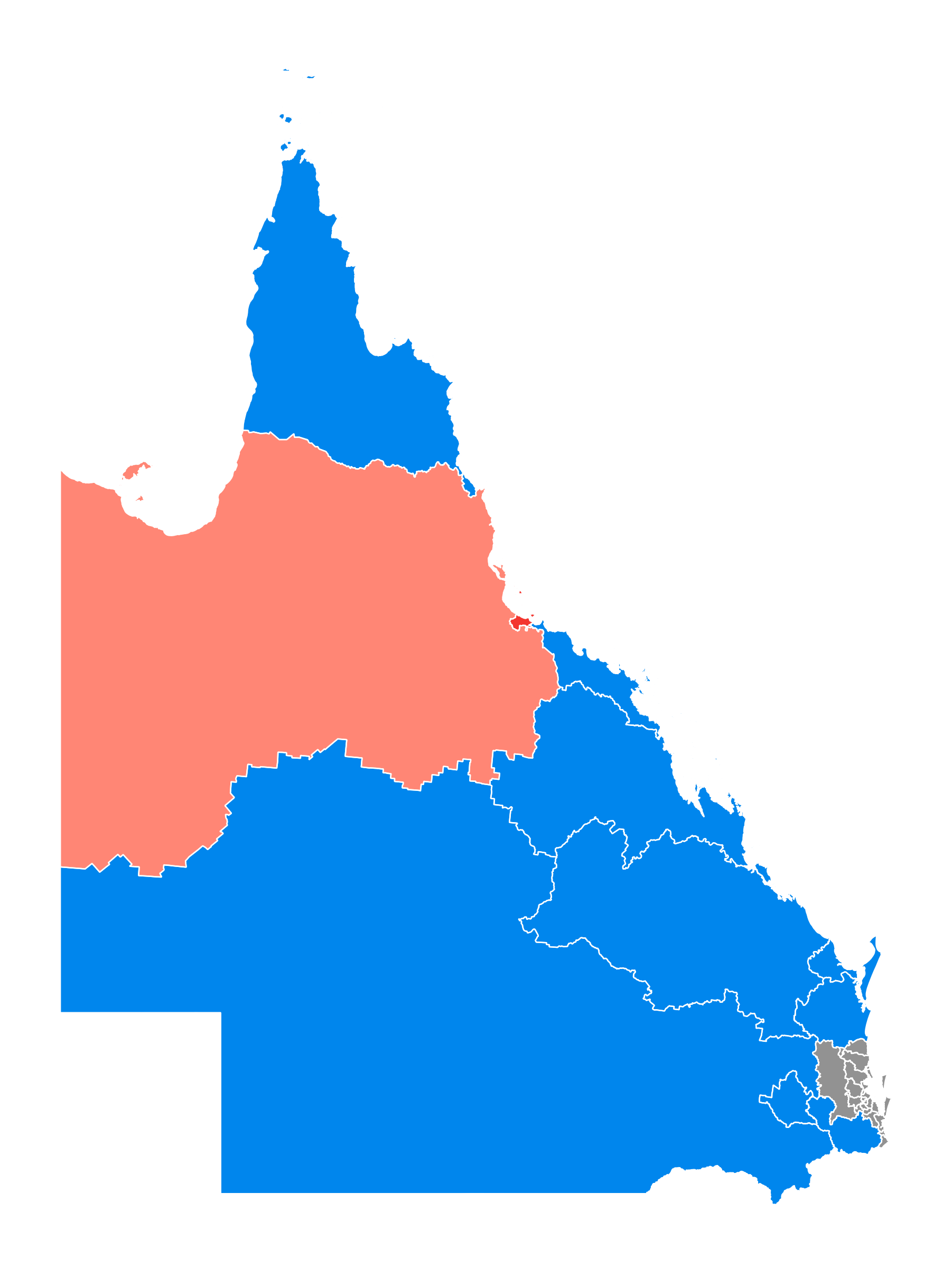 Results map of the Australian federal election, 2016 in Queensland, showing federal electorates decorated in the color representing a win by a particular party.